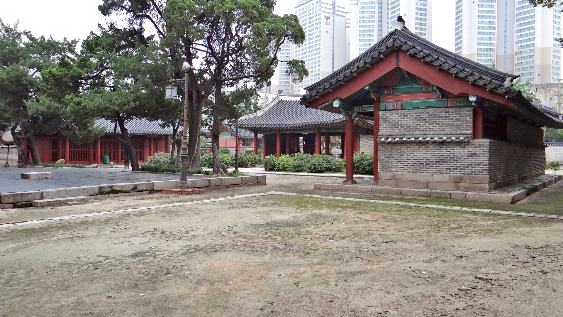 Donggwanwangmyo, or Dongmyo Shrine, built in 1601 in Seoul, is an ancestral shrine where ancestral sacrifices to the Chinese commander Guan Yu (162-219) were performed.